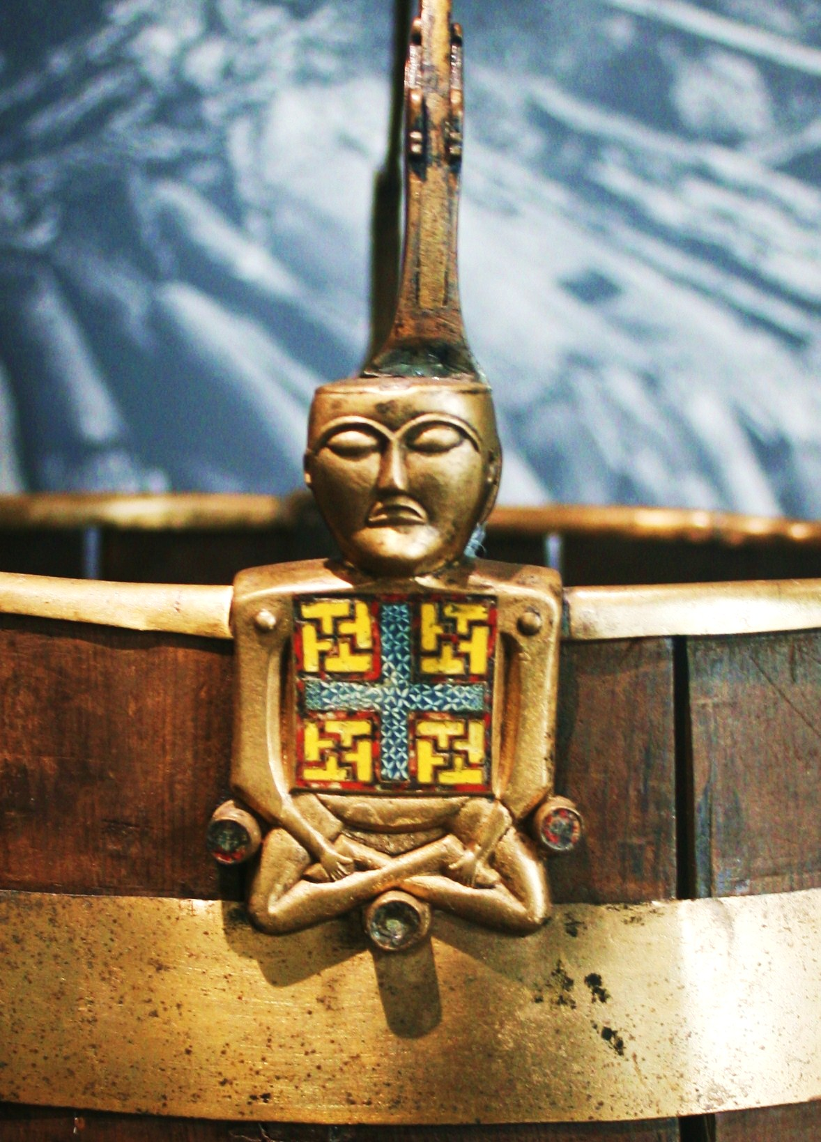 anthropomorphic brass ornament at the handle of the "Buddha-bucket" (Buddha-bøtte), found with the Oseberg ship burial (ca. 800 CE).